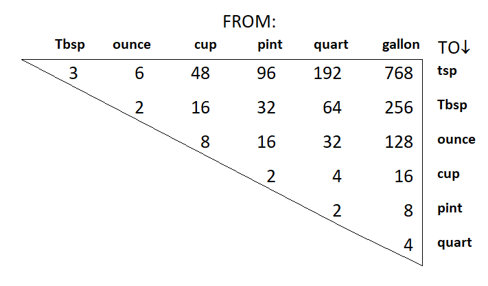 Ratios between the larger and smaller US cooking volumetric measures. These measurements may vary by custom and in other regions.